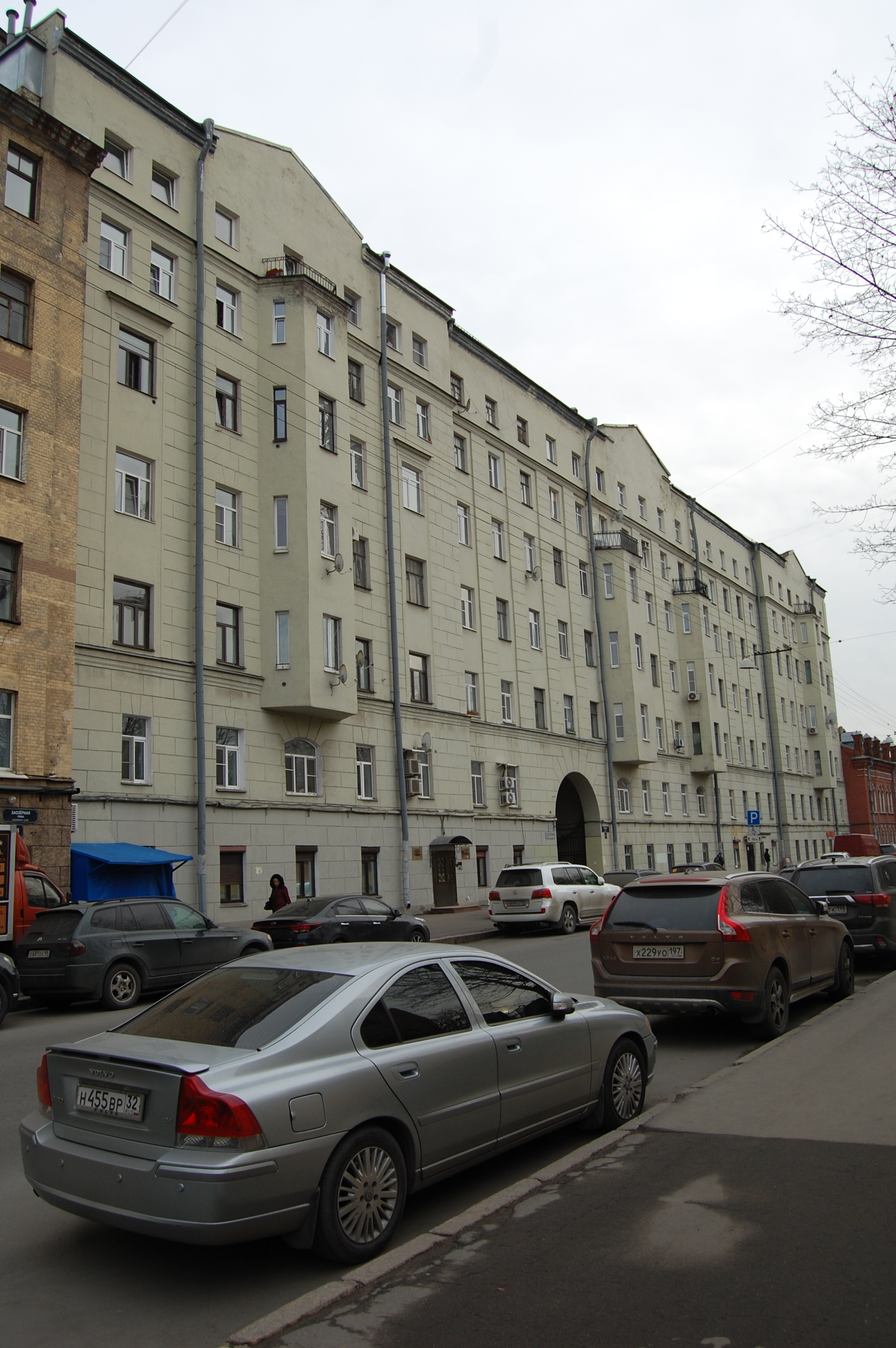 Apartment building Petersburg Zaozernaya ulitsa 8 by Lyudomir Khoynovsky (Ludomir Chojnowski) (1880-1915)